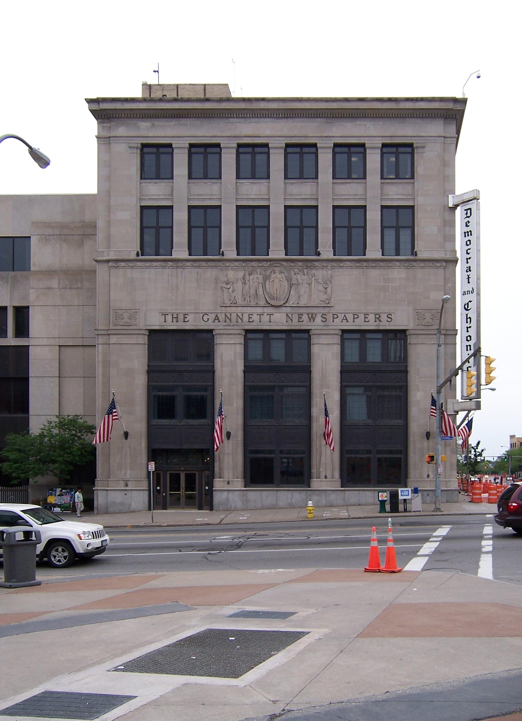 The Gannett Building in downtown Rochester, New York. It was once the headquarters of the Gannett Company, and of the Gannett newspaper Democrat and Chronicle. The building is listed on the National Register of Historic Places New York State Route 383 runs left-to-right in this image; its northern terminus at New York State Route 31 is barely visible as the intersection on the right edge of the photo. The Blue Cross Arena is immediately behind the camera. This image's perspective was corrected using "hugin".